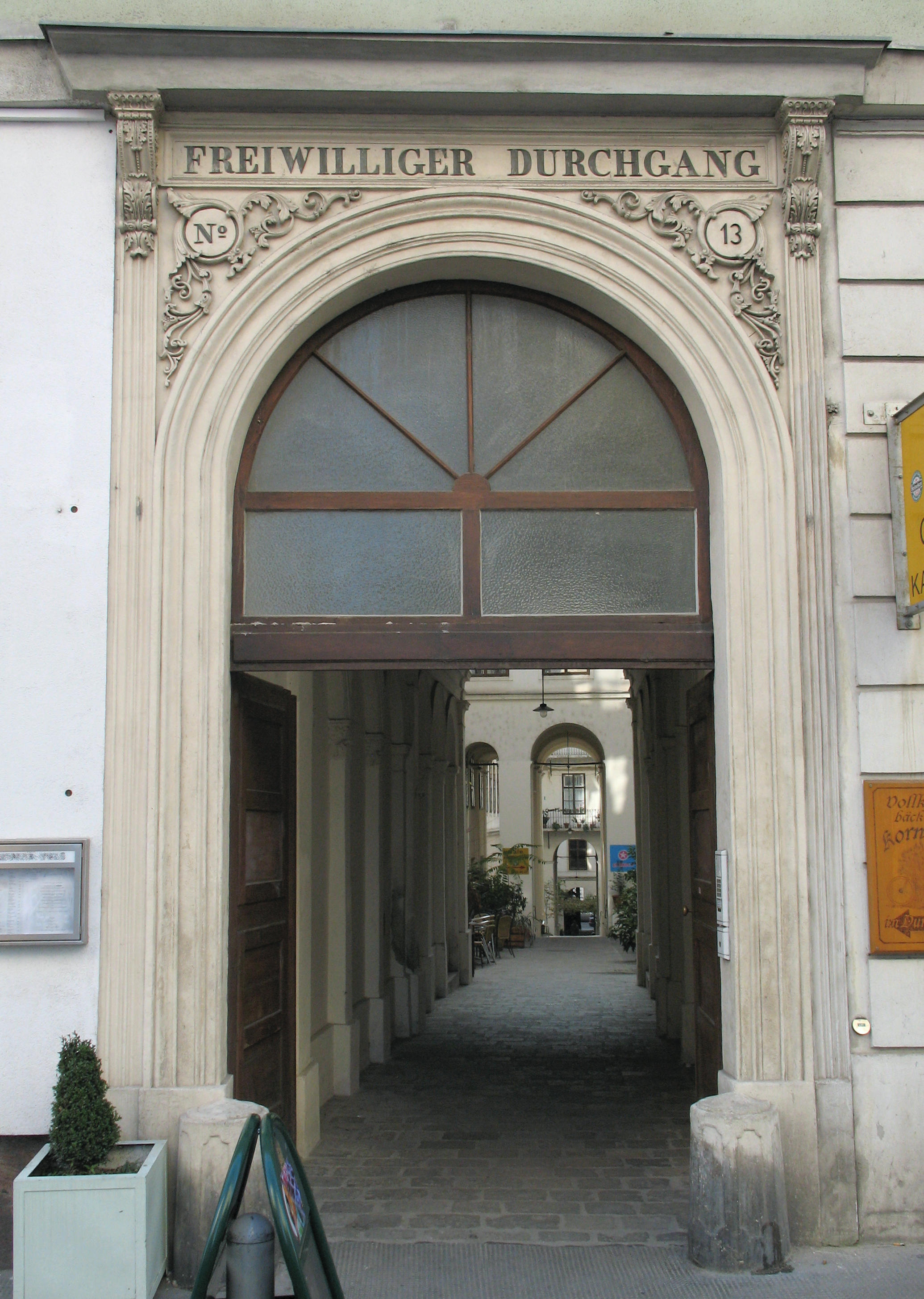 Passage in Vienna, Austria